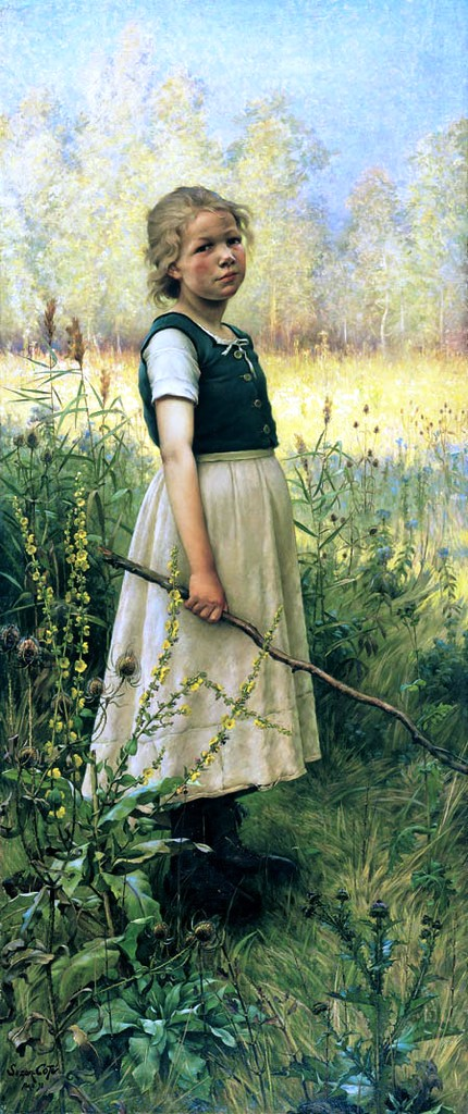 Marc-Aurèle de Foy Suzor-Coté, Shepherdess at Vallangoujard (Seine-et-Oise), 1898